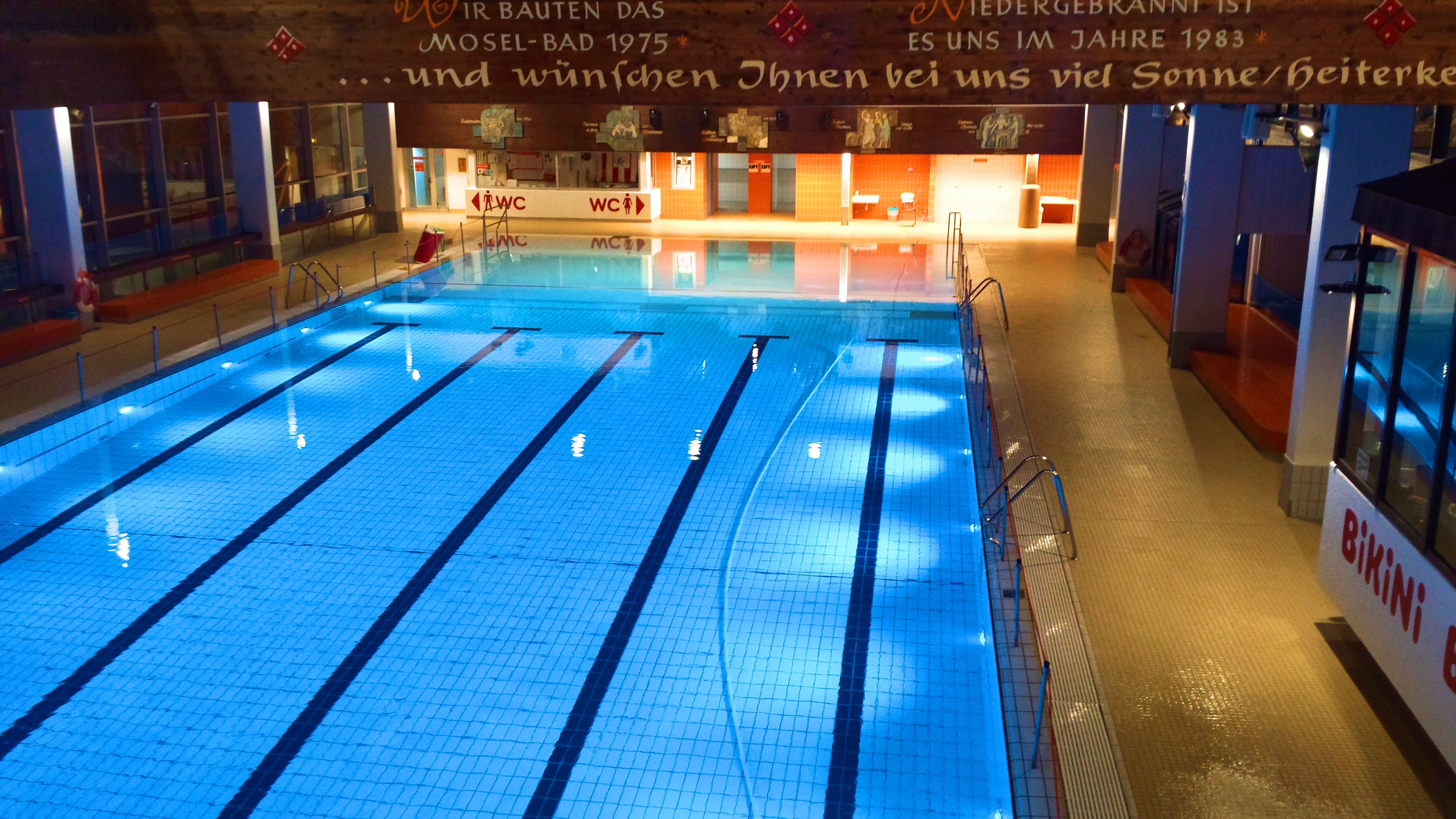 Indoor aquatic center Cochem